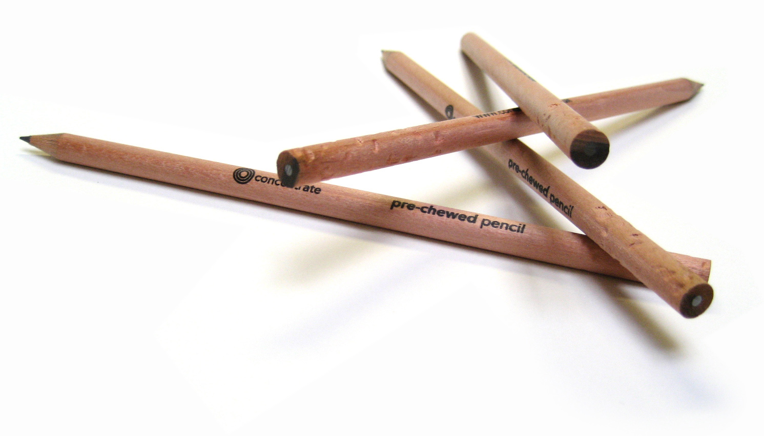 Pre-chewed pencils by Mark Champkins